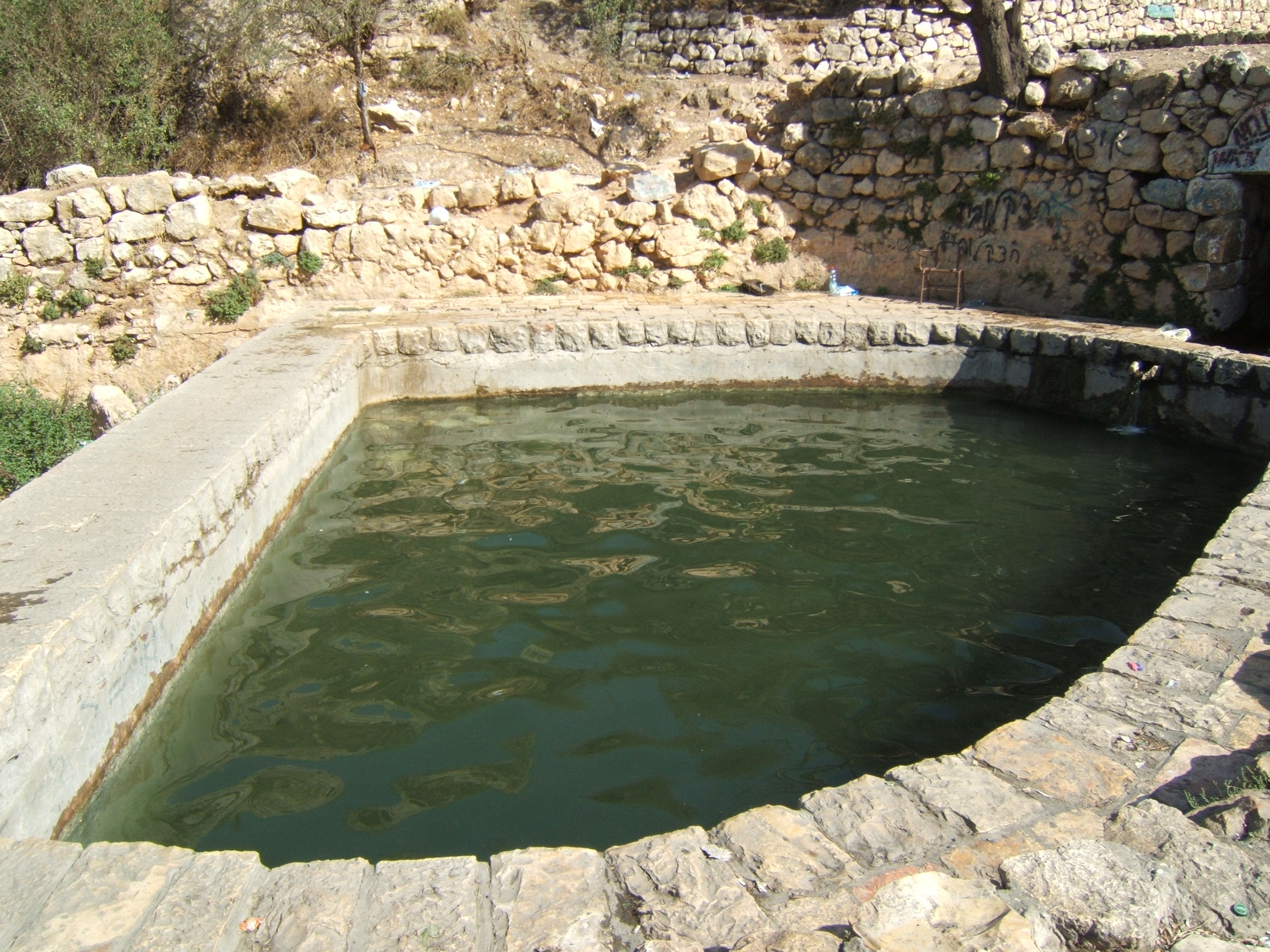 Lifta pool, Jerusalem, Israel.